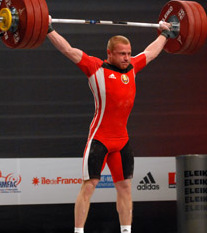 Andrei Rybakov snatches 178kg at the 2011 World Weightlifting Championships in Paris France.